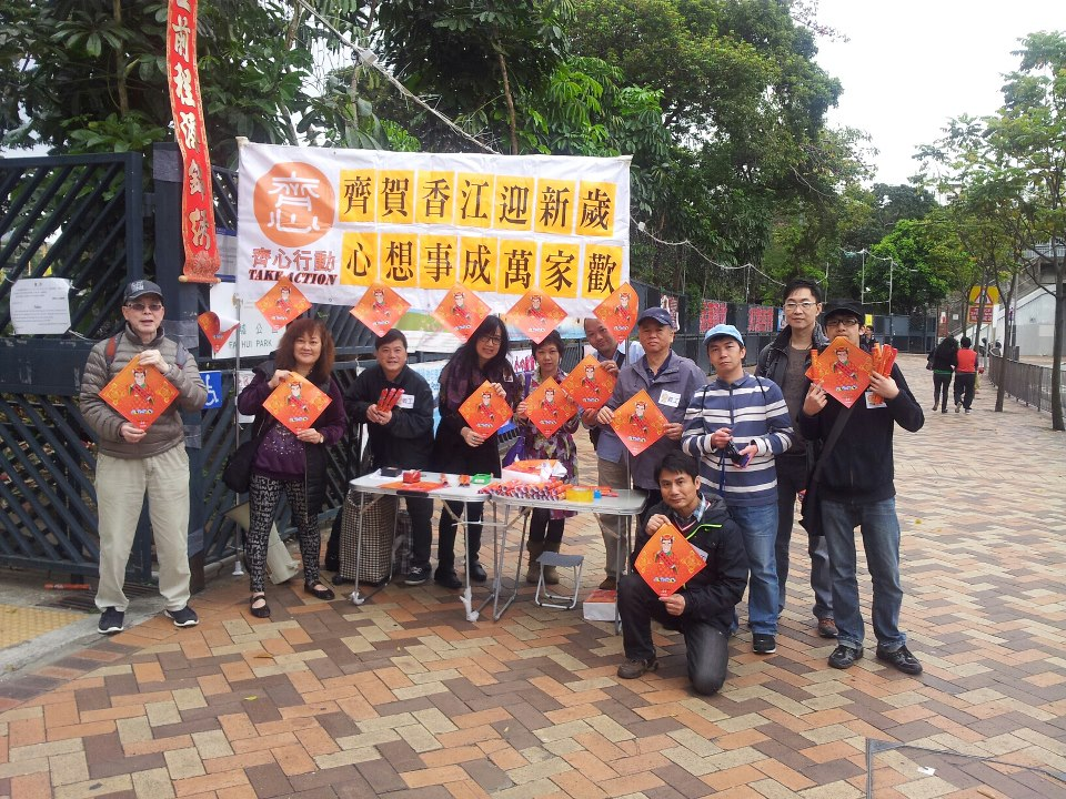 齊心行動